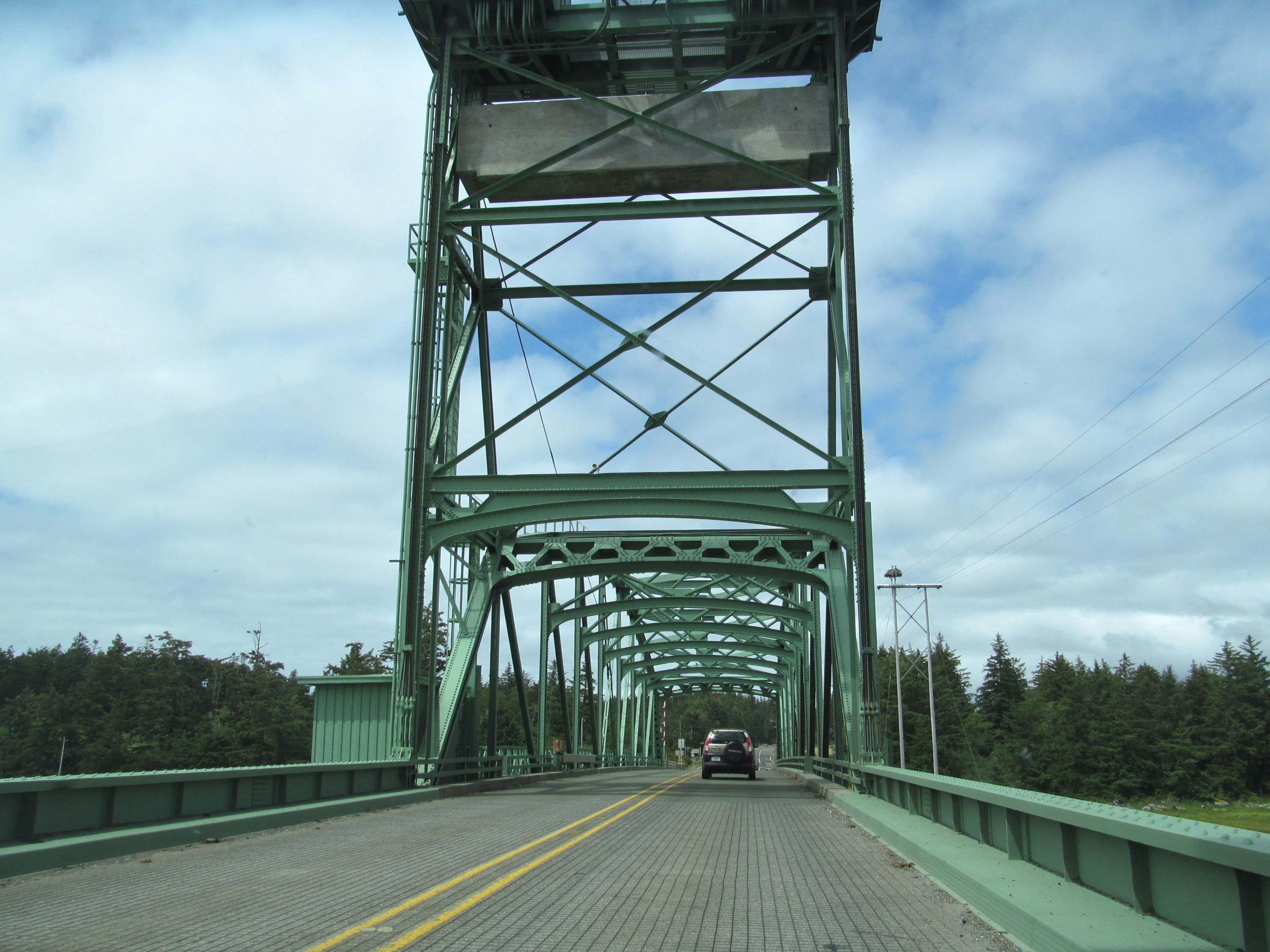 View from car crossing the Bullards Bridge, a vertical-lift bridge across the Coquille River on U.S. Highway 101 in Bandon, Oregon